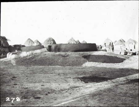 Partially rebuilt walls of a Shilluk grave-shrine of the deceased king Yur Adodit (+1892).